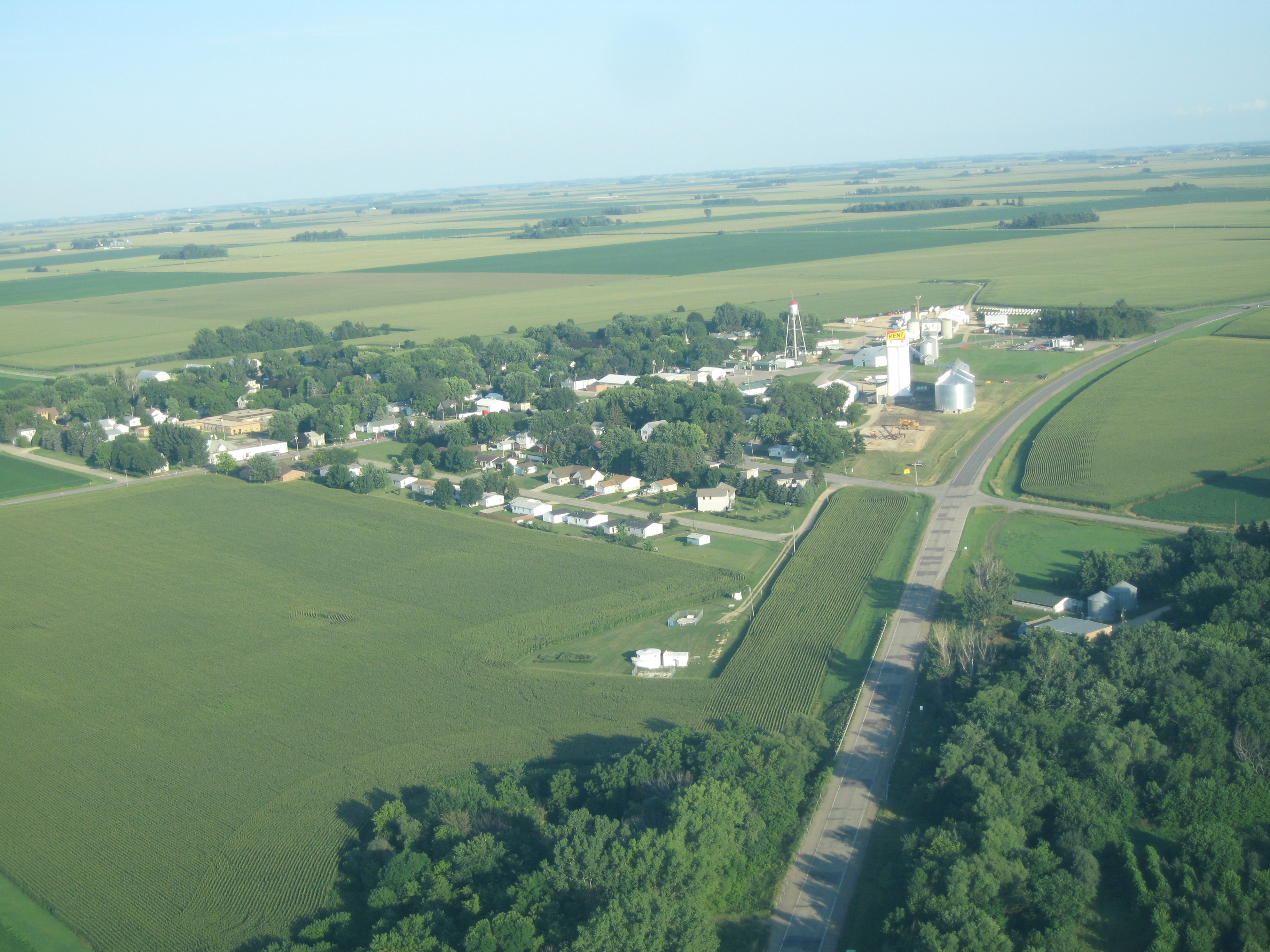 Air view of Waldorf